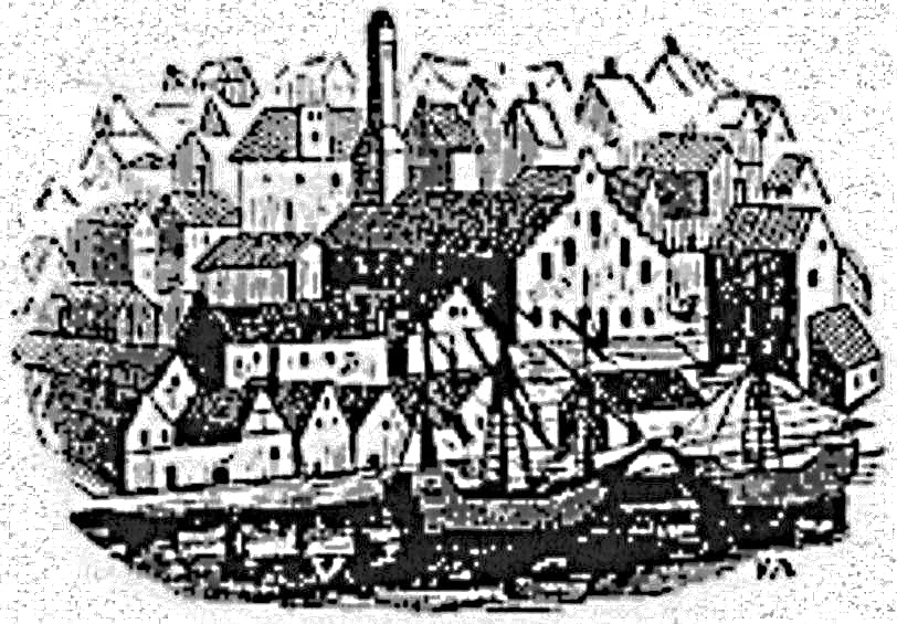 Burial place of Queens Beatrice and Richardis of Sweden, Black Friar's Abbey of Stockholm as it looked about 1510